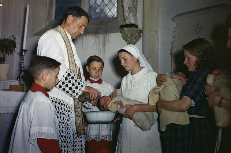 Baptising Babies Born in Benouville Maternity Home in France, 27 July 1944 The Cure of Blainville (Calvados), Abbe Saint Jean baptising a newly born baby in the thirteenth century chapel of Benouville Maternity Home. The baby is held by a nurse because its mother was still unable to leave her bed. At the time of the ceremony the Home was in the front line and the chapel windows were rattling as a result of the nearby artillery duel between German and Allied forces.